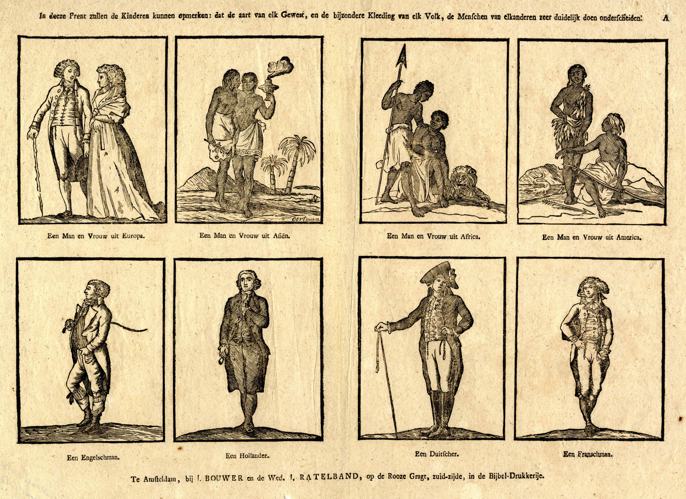 An engraving of the peoples of the world. Showing; A European couple, an Asian couple, an African couple and an American couple. Below are an Englishman, a Dutchman, a German and a Frenchman.